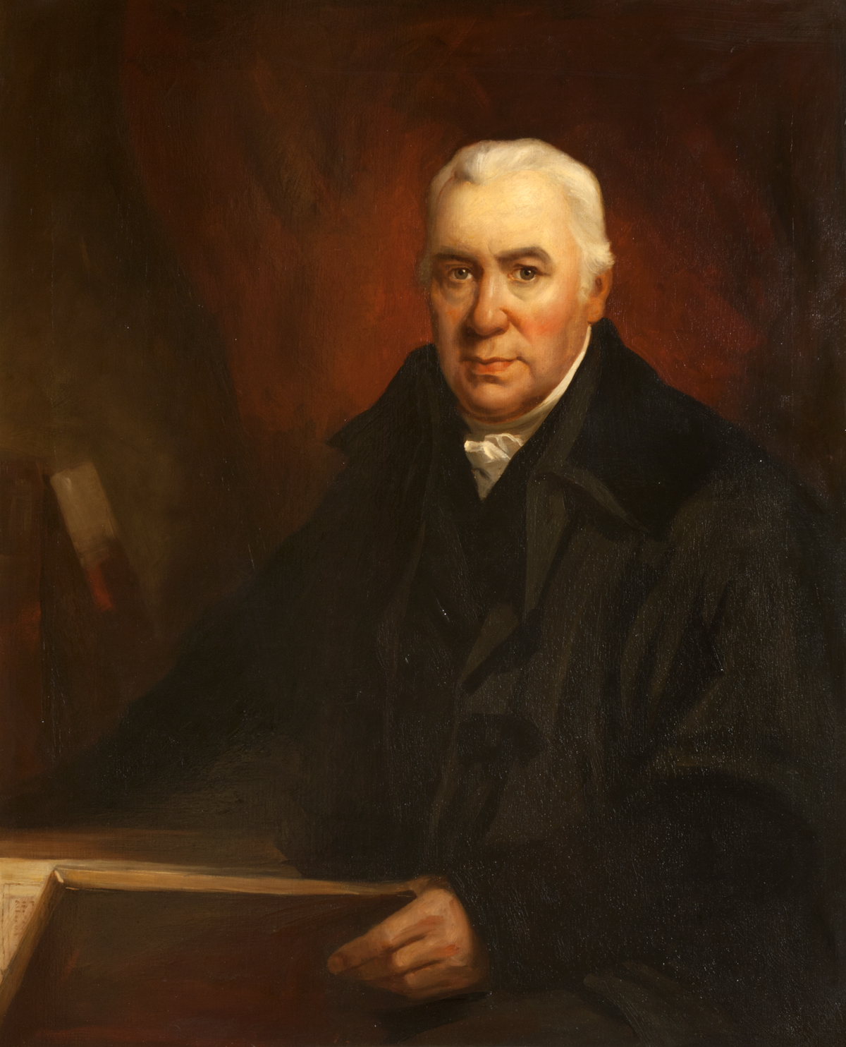 Daniel Rutherford (1749-1819); Royal College of Physicians of Edinburgh